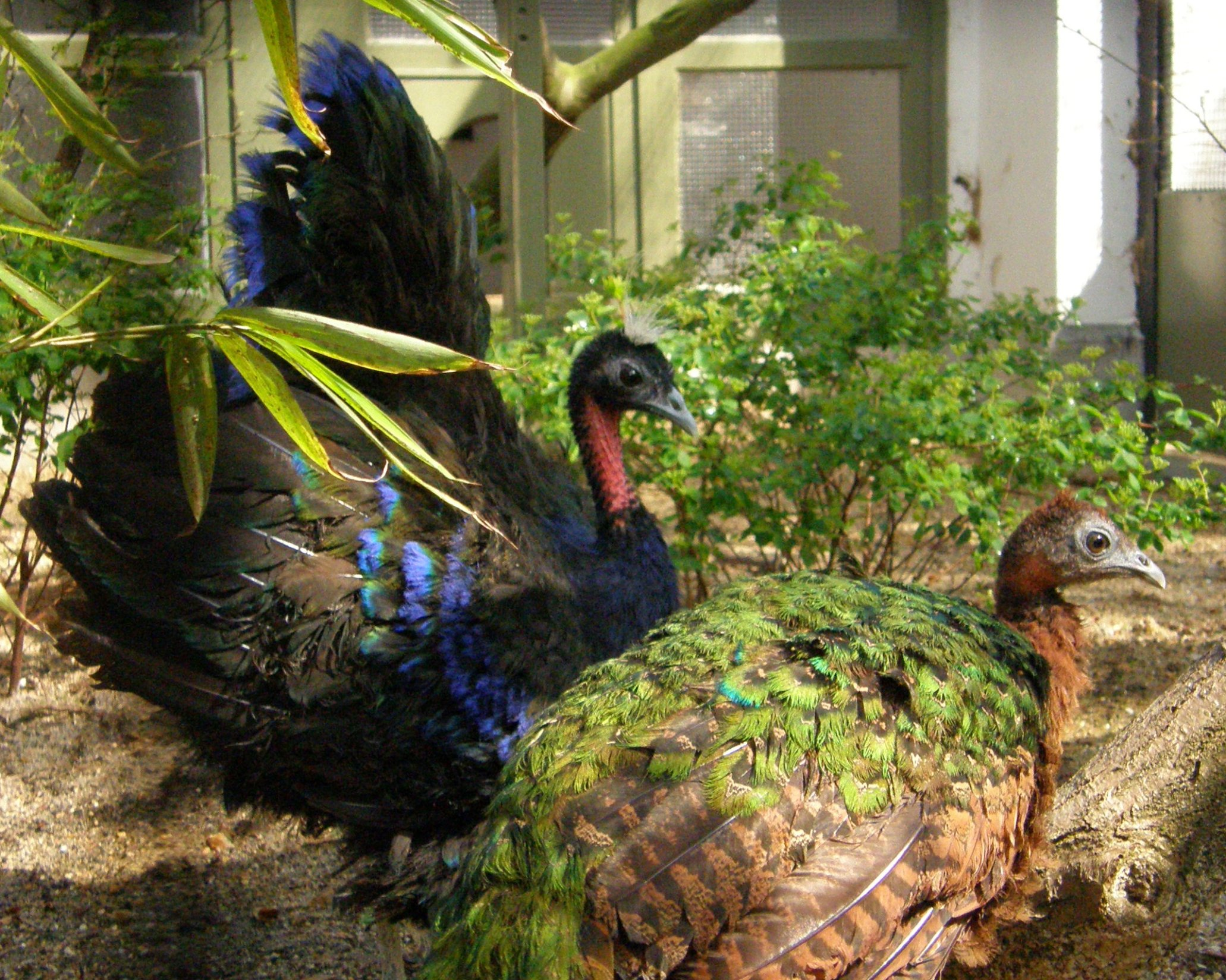 A pair of Congo Peafowl at Antwerp Zoo, Belgium.